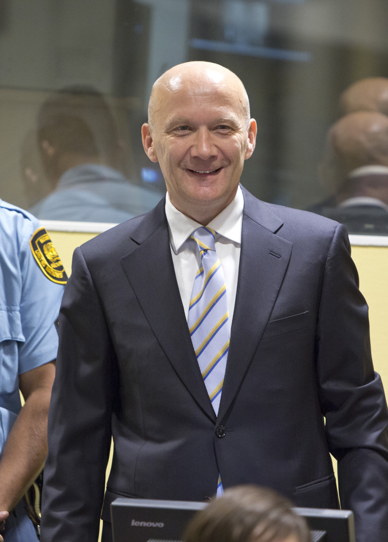 Jadranko Prlić as one of the six accused at the Prlić Trial Judgement in 2013